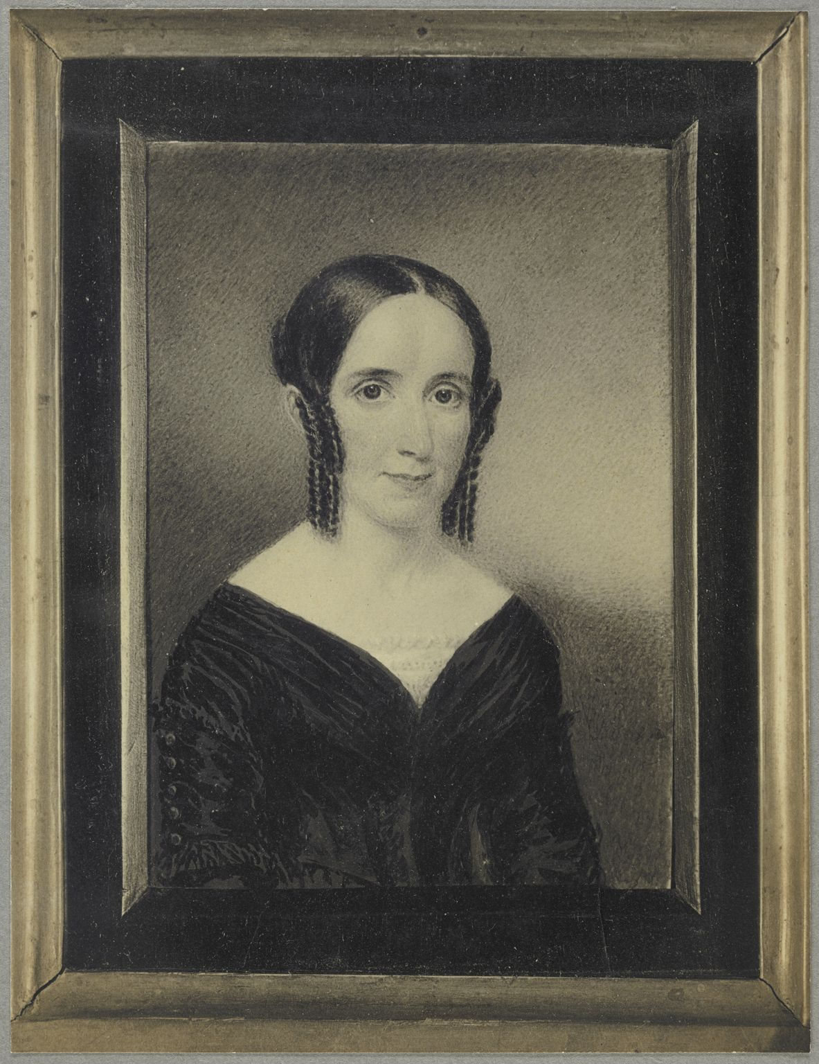 Webster, Caroline Le Roy, 1797-1882. Second wife of US Orator Daniel Webster